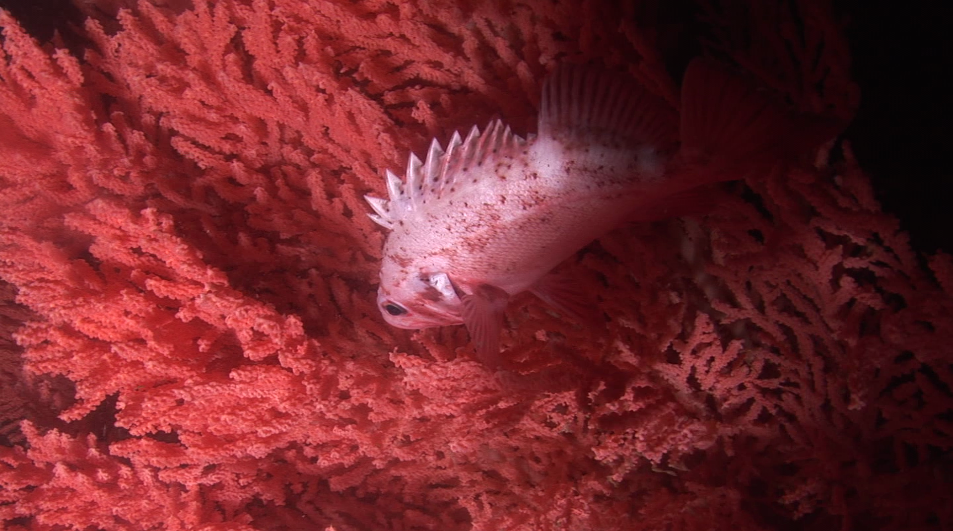 A rockfish hides in a red tree coral (Primnoa pacifica) in Juan Perez Sound in Haida Gwaii, British Columbia. The Finding Coral Expedition found high abundances of Primnoa pacifica at Dundas Island, Portland Inlet and Juan Perez Sound. Current research indicates that these are the most important habitat forming corals in the North Pacific. The expedition found dense forests up to one meter high and two meters wide providing habitat, refuge and food for a large number of fish and invertebrates.